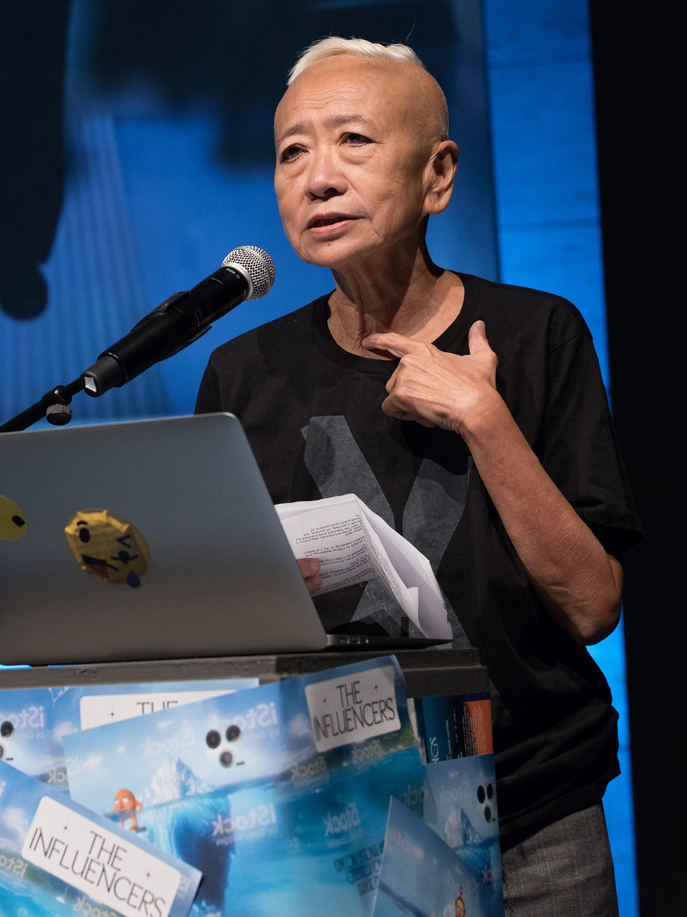 Artist Shu Lea Cheang at The Influencers in 2019.